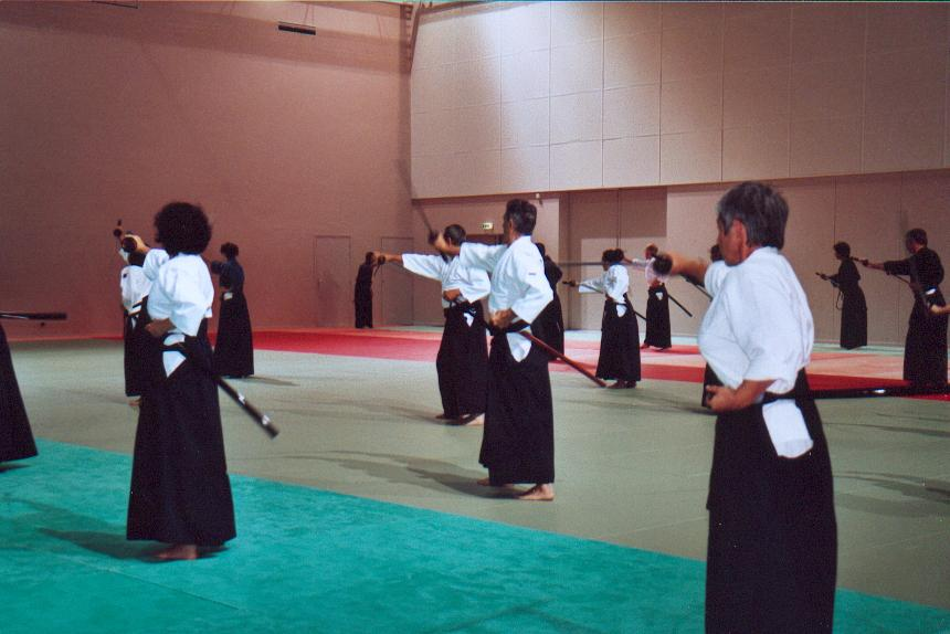 Iaidoka praticing at the Lesneven aikido's international training